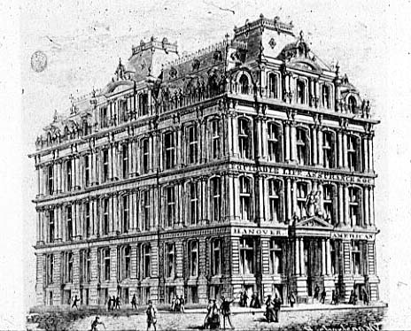 Equitable Life Assurance Bldg, New York. George Browne Post, architect, 1868-70 contemporary lithograph